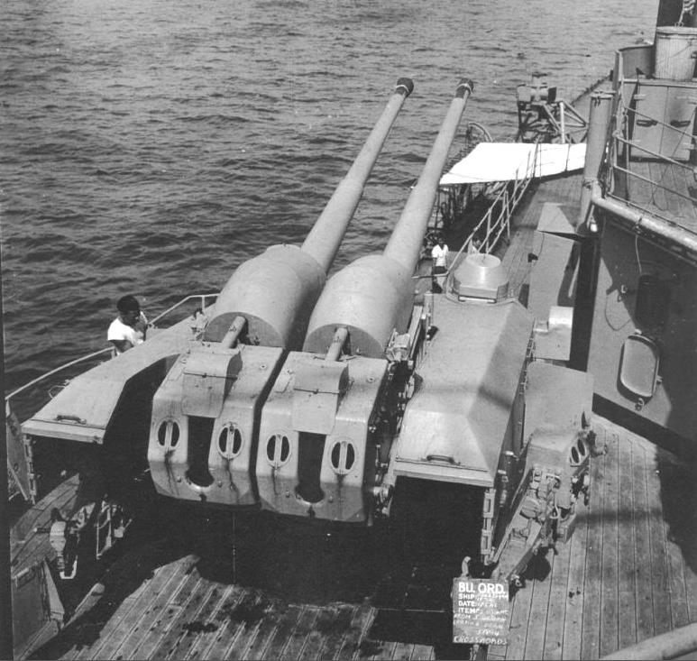 Photo of a 10.5cm SK C/33 anti-aircraft mounting on the heavy cruiser Prinz Eugen in US Navy service, preparing for the Operation Crossroads nuclear tests in 1946. Photo was taken by the US Navy's Bureau of Ordnance on 17 June 1946 to document the ship before the nuclear tests.